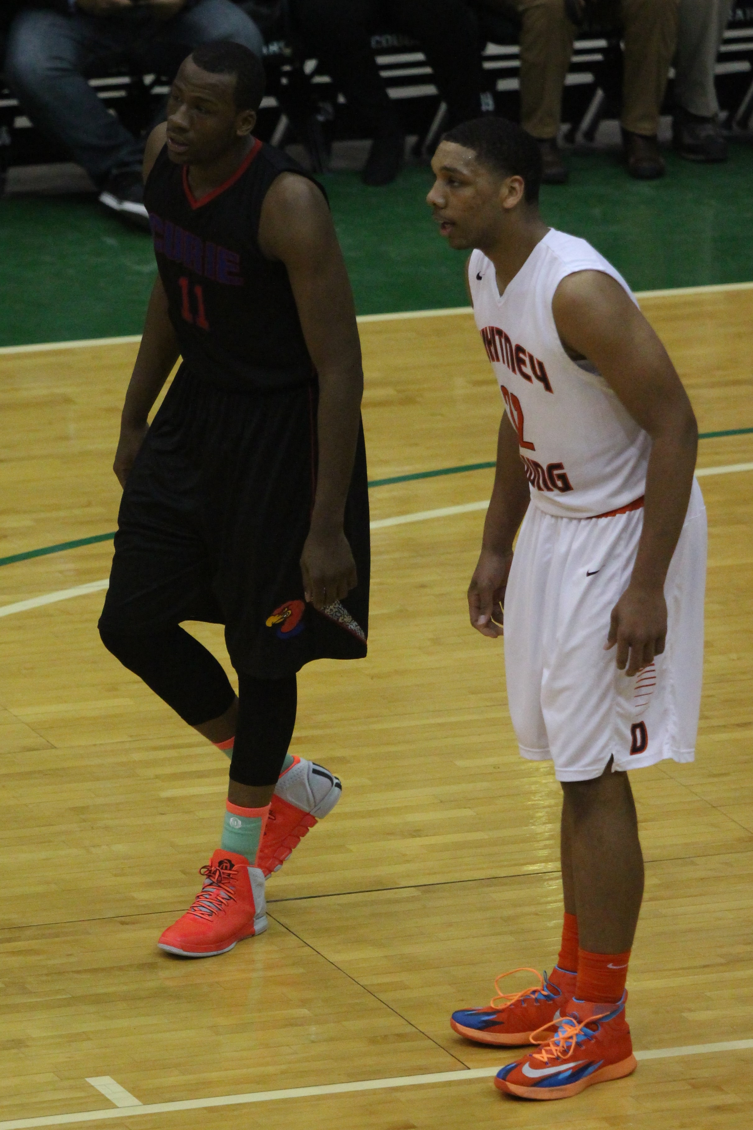 Cliff Alexander and Jahlil Okafor at the 2014 Chicago Public High School League championship game